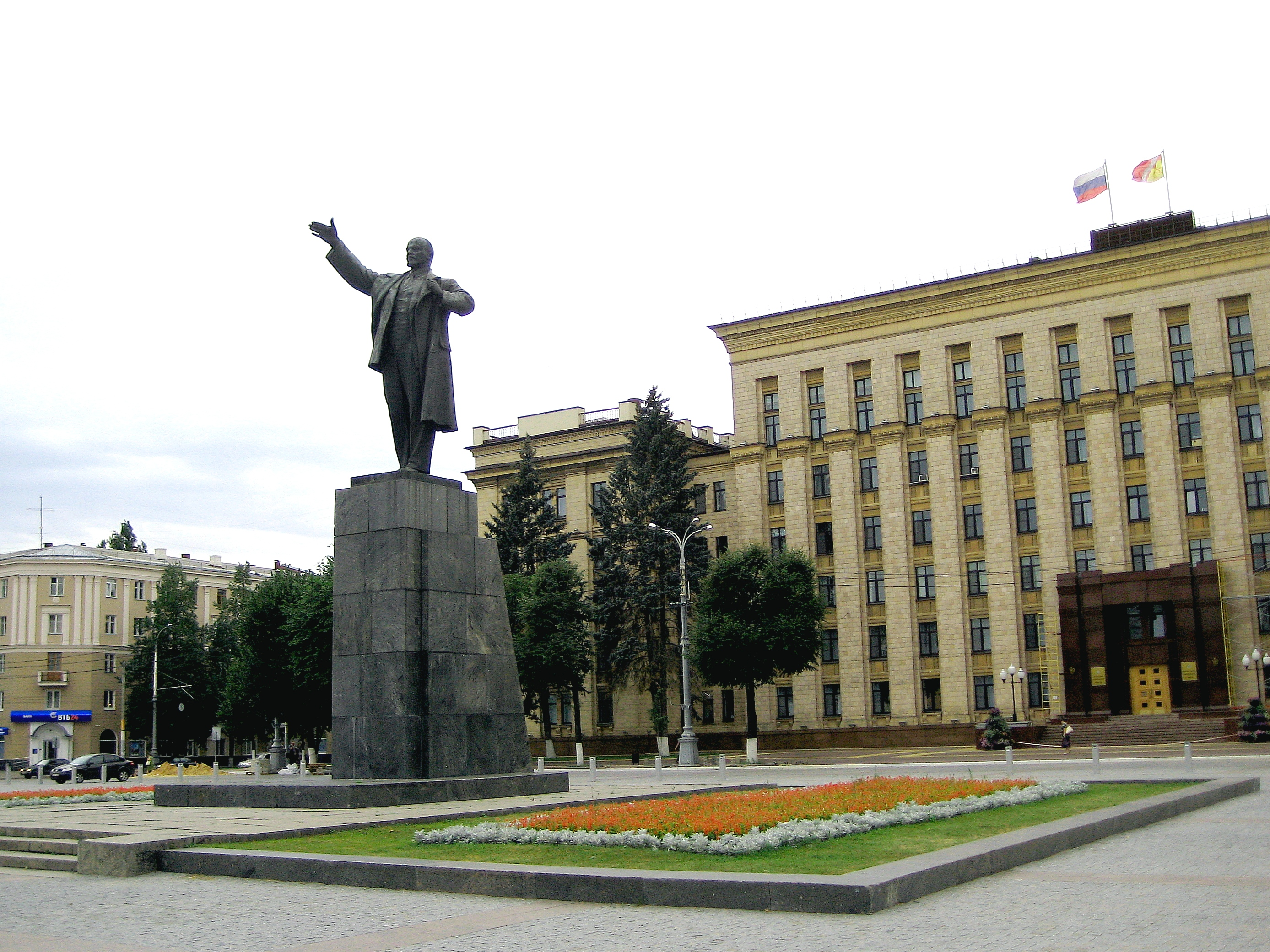 Monument to Lenin. Lenin Square, Voronezhskaya oblast